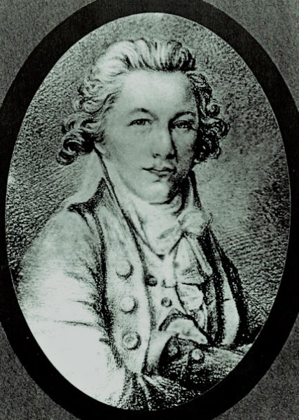 a British merchant, (1768-1833), who had immigrated in Argentina in the early 19th century